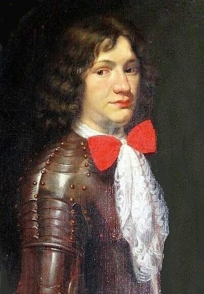 Portrait of Danish military officer Palle Krag (1657-1723)